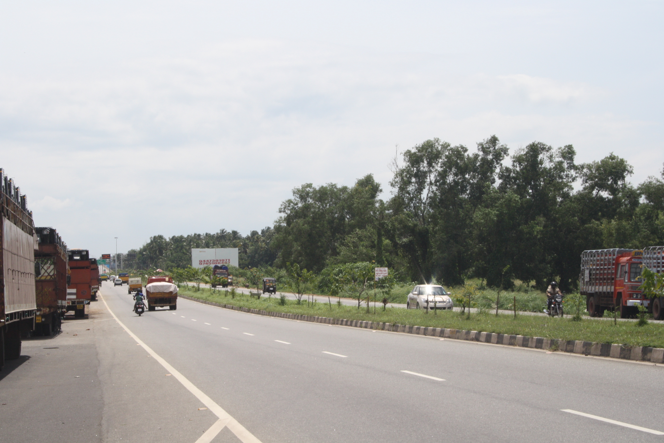 NH 47 at Thrissur City